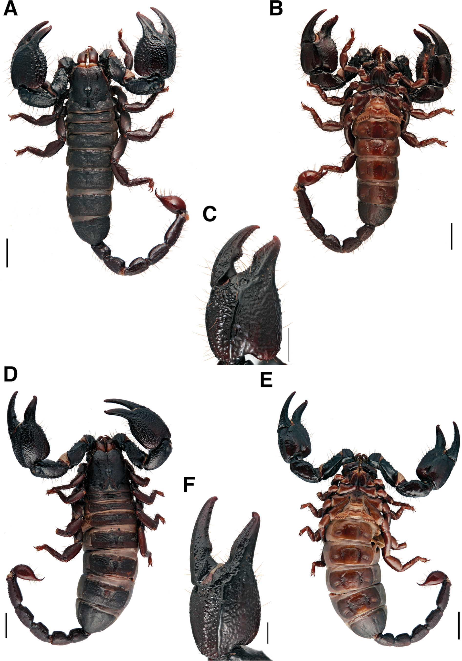 Figure 41; Opisthacanthus transvaalicus Kraepelin, 1911 [= Opisthacanthus validus Thorell, 1876], male lectotype (A–C), female paralectotype (D–F): A, D dorsal aspect of habitus B, E ventral aspect of habitus C, F retrolateral aspect of chela illustrating dentate margins of fingers. Scale bars: 10 mm (A–B, D–E), 5 mm (C, F).